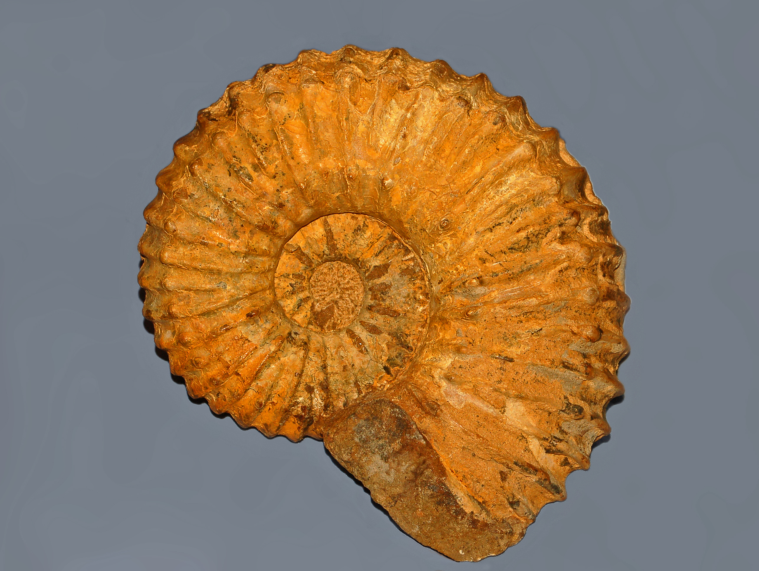 Calycoceras (Newboldiceras) asiaticum spinosum, Late Cretaceous (Cenomanian) from Madagascar, abt. 94 Mya